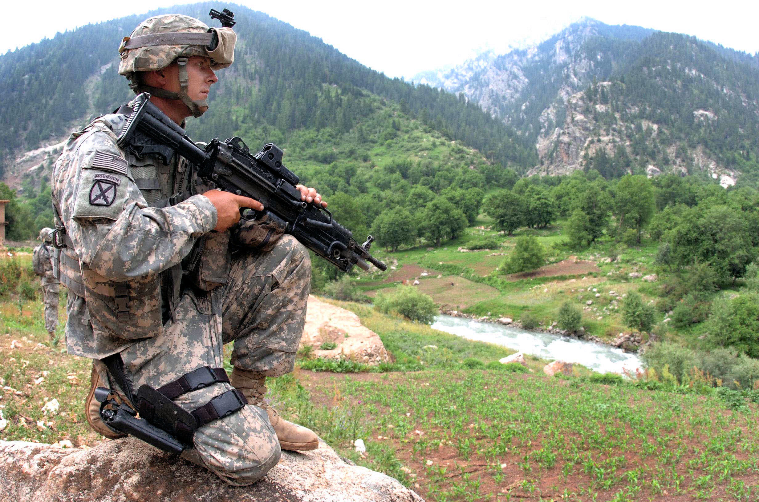 US soldier pulls security for a medical civil action project in Parun district, Afghanistan